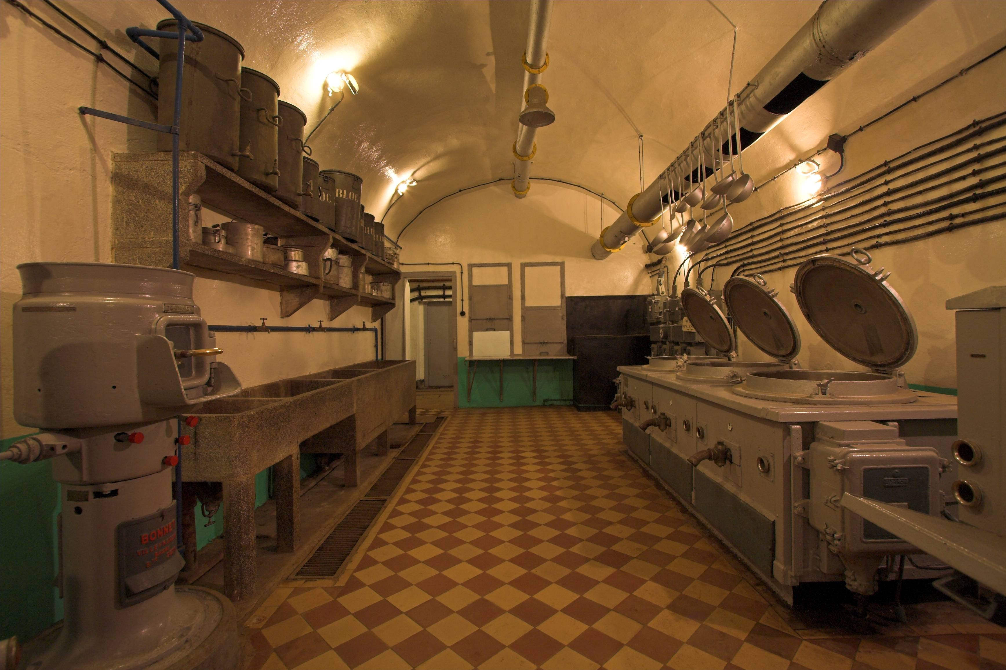 a kitchen in the Fort Shoenenbourg(Schoenenbourg, France)